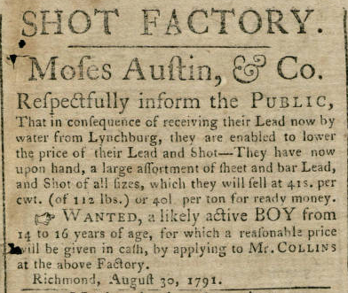 Advertisement from August 31, 1791 issue of “The Virginia Gazette and General Advertiser,” for the Moses Austin & Co. Shot Factory. This shot factory was most certainly located in Richmond, VA due to the mentioning of getting lead from Lynchburg by water. Richmond and Lynchburg are both on the James River (Chesapeake Bay watershed), however Wythe County is on the New River (Gulf of Mexico watershed)